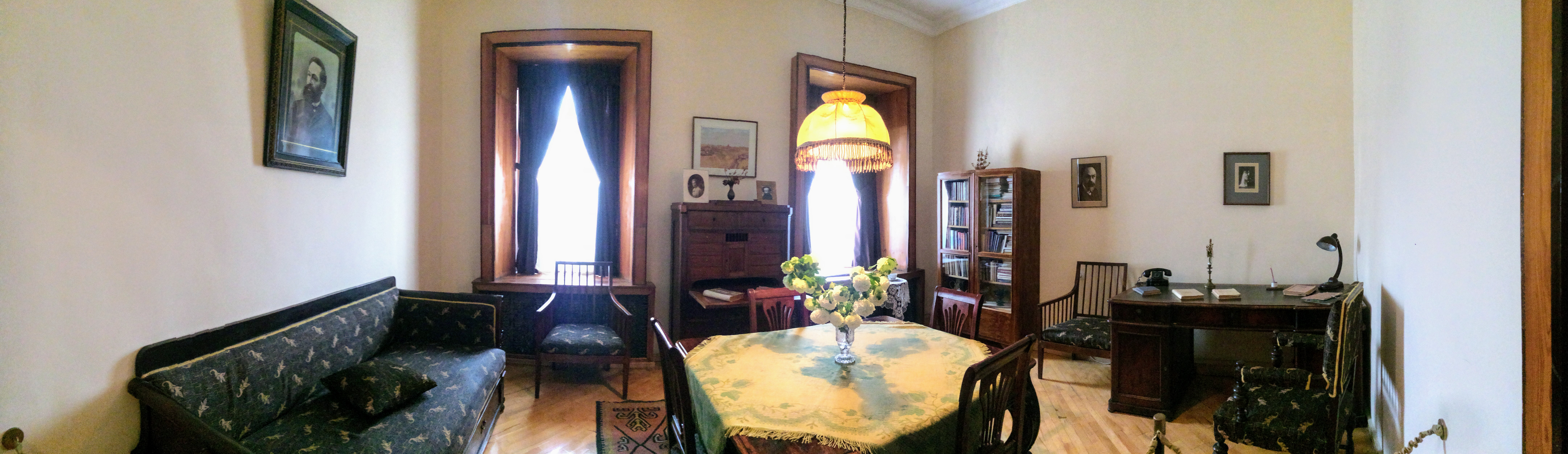 Panorama from Orbeli Brothers Museum